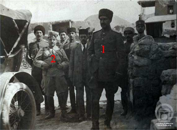 دیدار رضا شاه از مانور جنگی